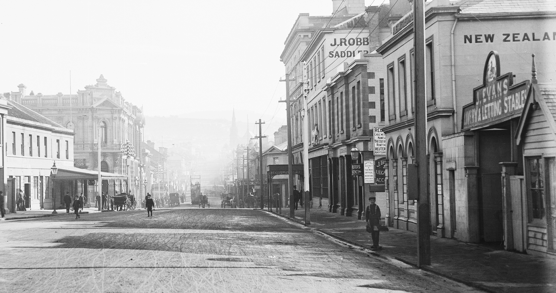 Tasmanian Archive and Heritage Office: Detail from NS1013-1-816 Images from the TAHO collection that are part of The Commons have ‘no known copyright restrictions’, which means TAHO is unaware of any current copyright restrictions on these works. This can be because the term of copyright for these works may have expired or that the copyright was held and waived by TAHO. The material may be freely used provided TAHO is acknowledged; however TAHO does not endorse any inappropriate or derogatory use.